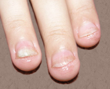 Nail candidiasis.